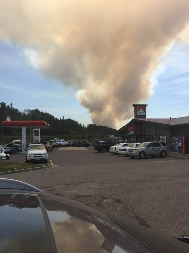 North Bay 69 wildfire south of Temagami, Ontario